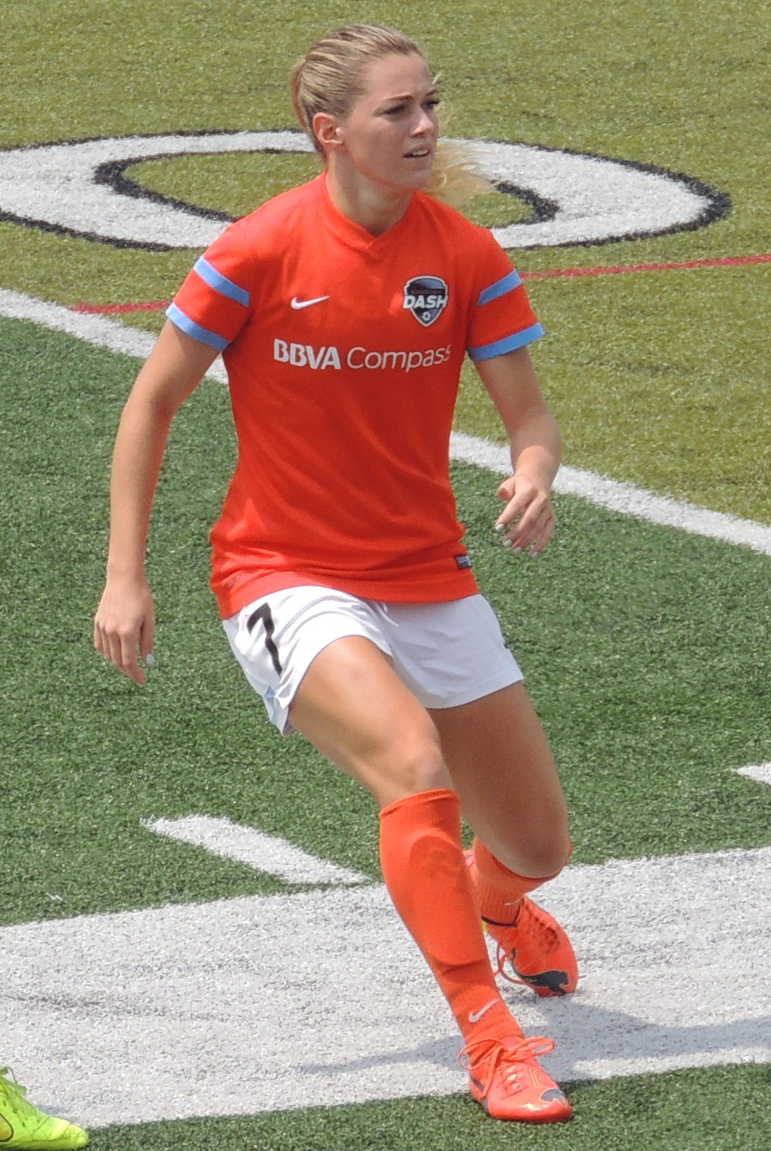 July 26, 2014; Julie Johnston and Kealia Ohai in Chicago Red Stars vs Houston Dash